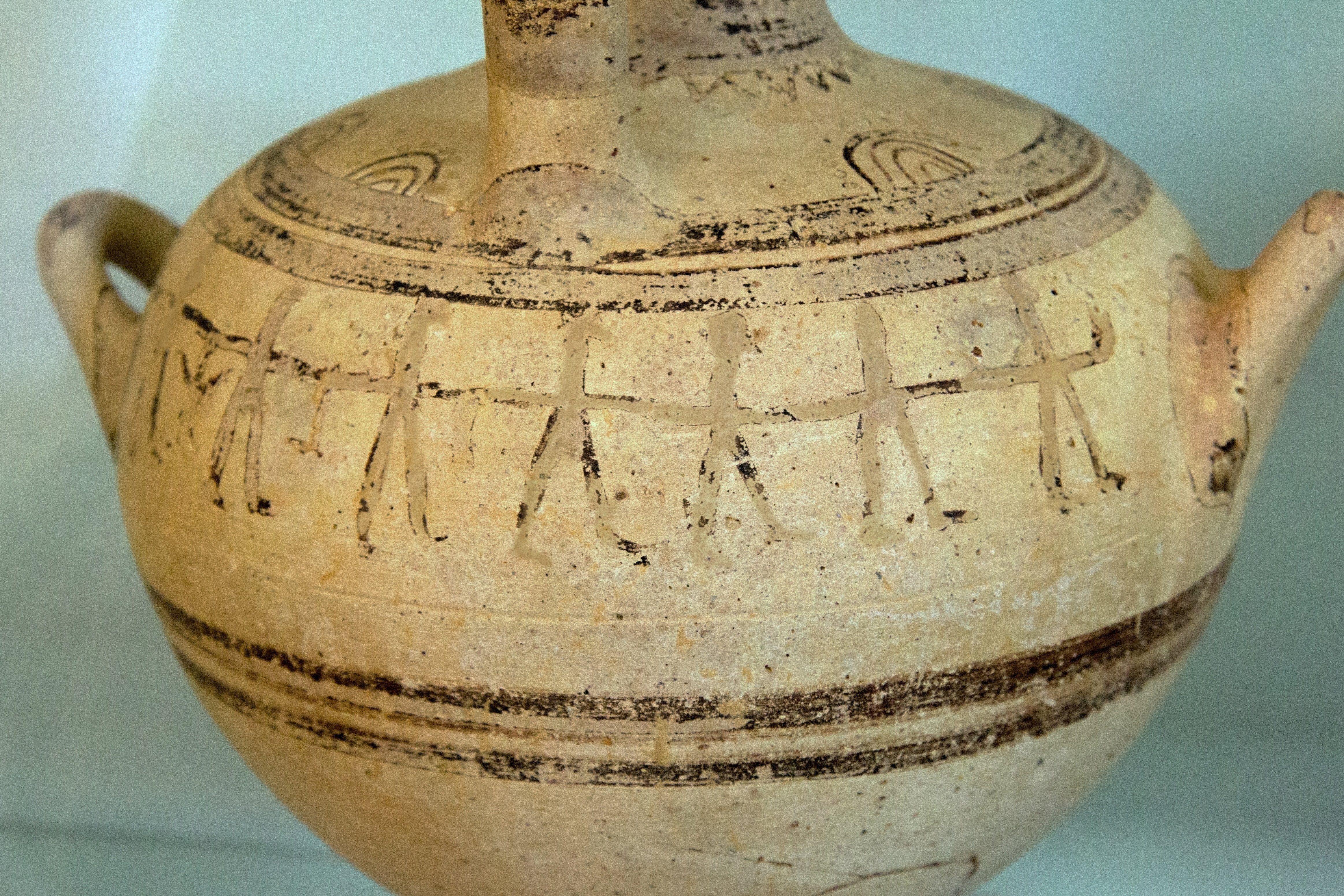 Late Mycenaean Hydria (or oinochoé?) from the Kamini on Naxos, 12 century BC. Display dance scene. Archaeological Museum of Naxos.